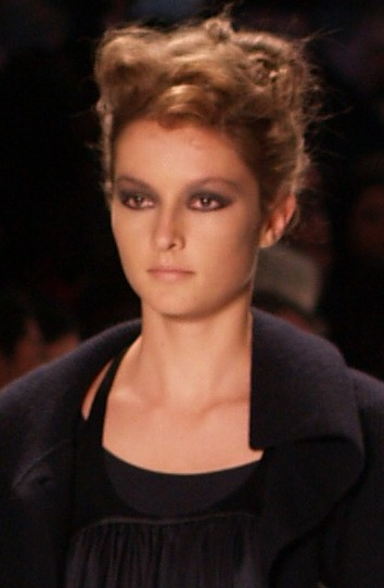 Solange Wilvert modeling, Doo.Ri fall 2007 collection, New York Fashion Week